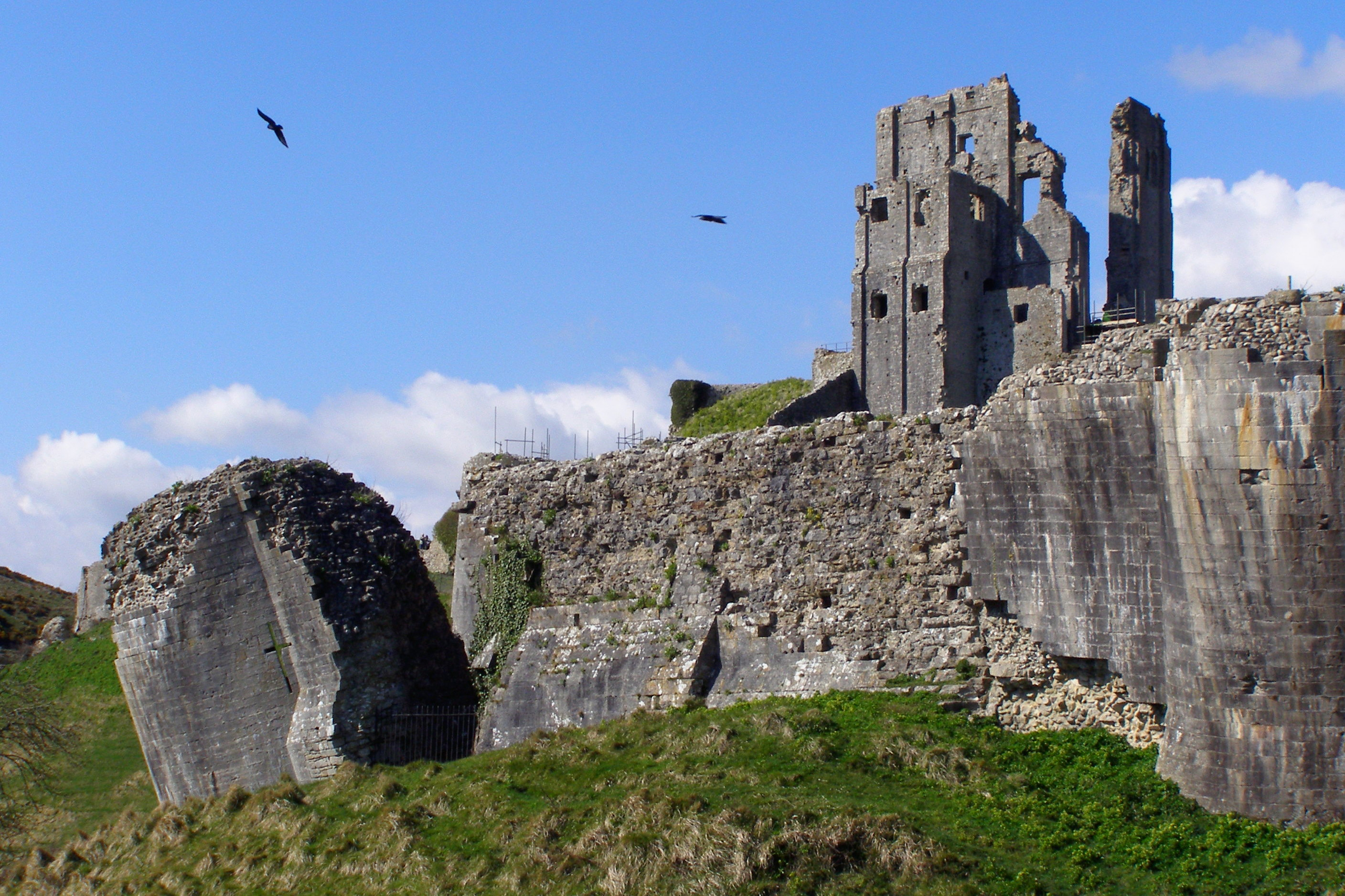 The slighted outer bailey wall, to the immediate west of the outer gatehouse, Corfe Castle, Dorset, England.